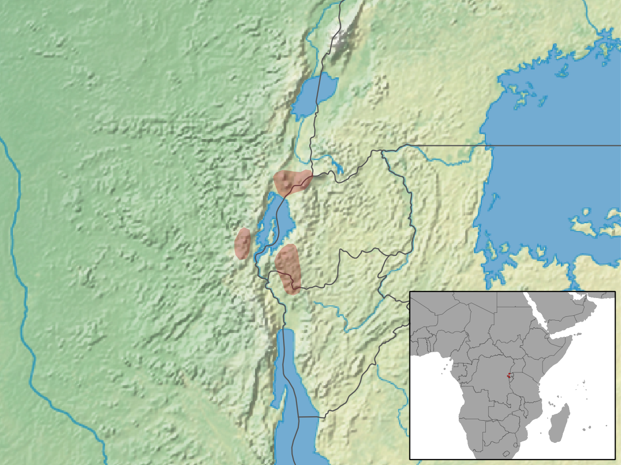 geographic distribution of Thamnomys kempi